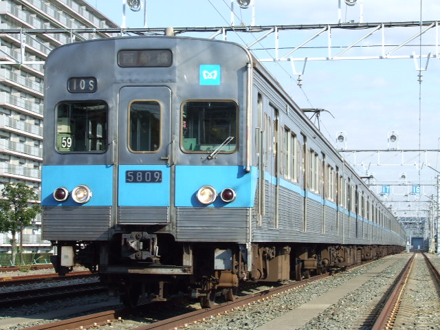 Tokyo Metro Tozai Line 5000 series stainless steel EMU set No. 59 at Fukagawa Depot in Tokyo